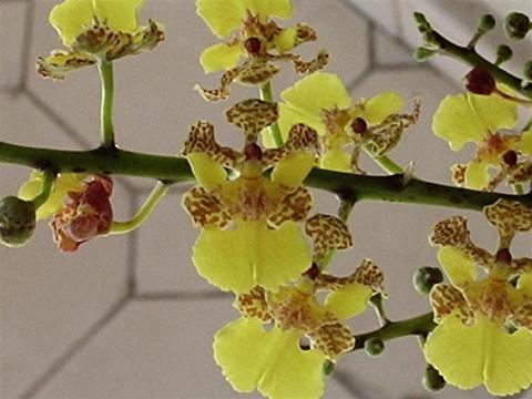 A work released per the GNU Free Documentation License by: Martín Javier Battiti de Tegucigalpa, Honduras